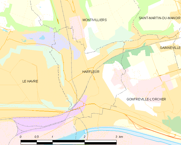 Map of French municipality Harfleur